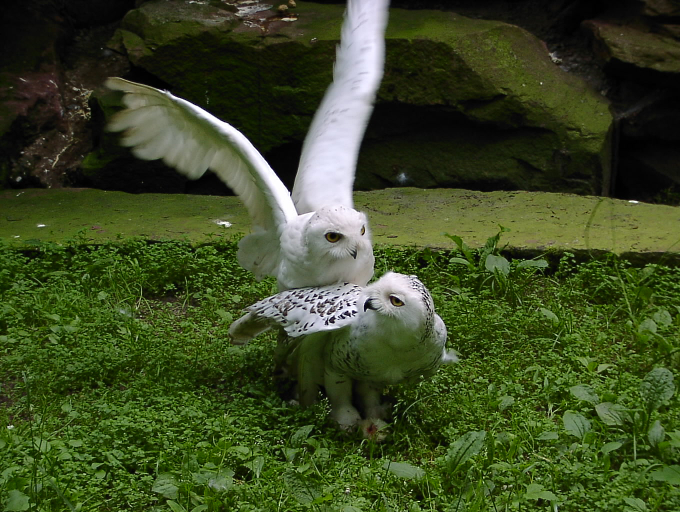 Snowy Owls in the pairing season